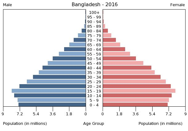 The population pyramid of Bangladesh illustrates the age and sex structure of population and may provide insights about political and social stability, as well as economic development. The population is distributed along the horizontal axis, with males shown on the left and females on the right. The male and female populations are broken down into 5-year age groups represented as horizontal bars along the vertical axis, with the youngest age groups at the bottom and the oldest at the top. The shape of the population pyramid gradually evolves over time based on fertility, mortality, and international migration trends.